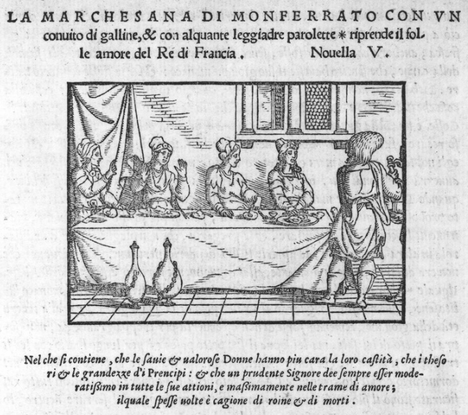 Illustration to day 1 tale 5 of Boccaccio's Decameron, ed. Venice 1552, p. 34: the chicken dinner